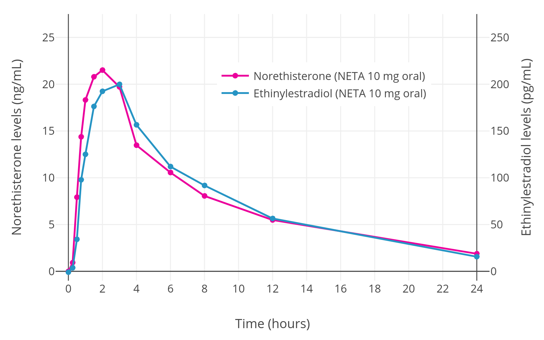 Levels of norethisterone (ng/mL) and ethinylestradiol (pg/mL) after a single oral dose of 10 mg norethisterone acetate (NETA) in 24 postmenopausal women. Source of the values: (December 1997). "In vivo conversion of norethisterone and norethisterone acetate to ethinyl etradiol in postmenopausal women". Contraception 56 (6): 379–85. PMID 9494772.